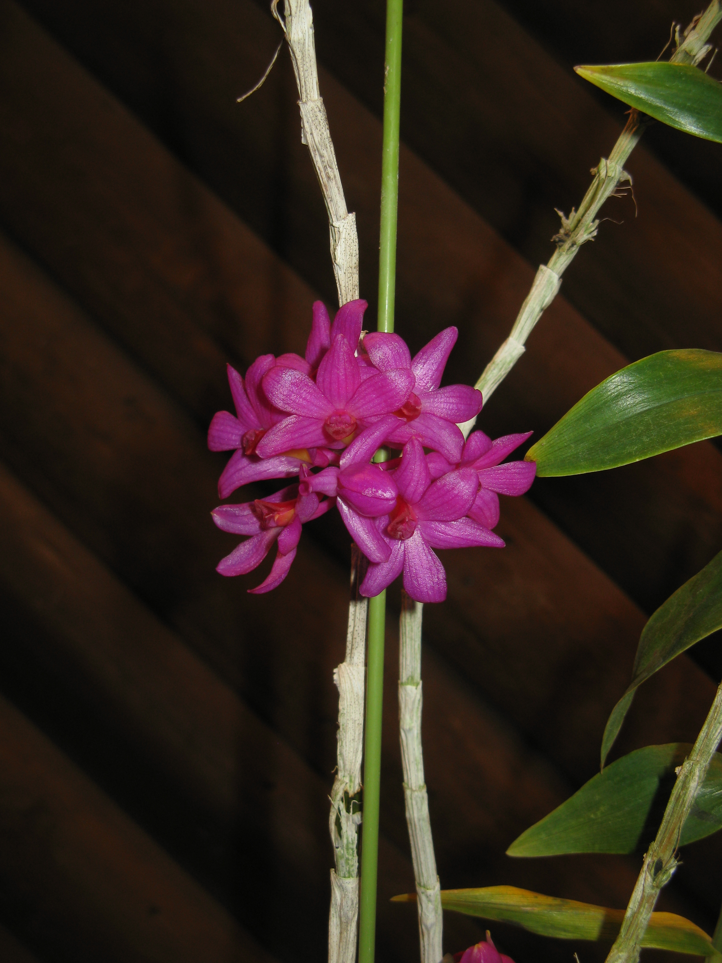 Scientific name Dendrobium crepidiferum Place:Osaka Prefectural Flower Garden,Osaka,Japan